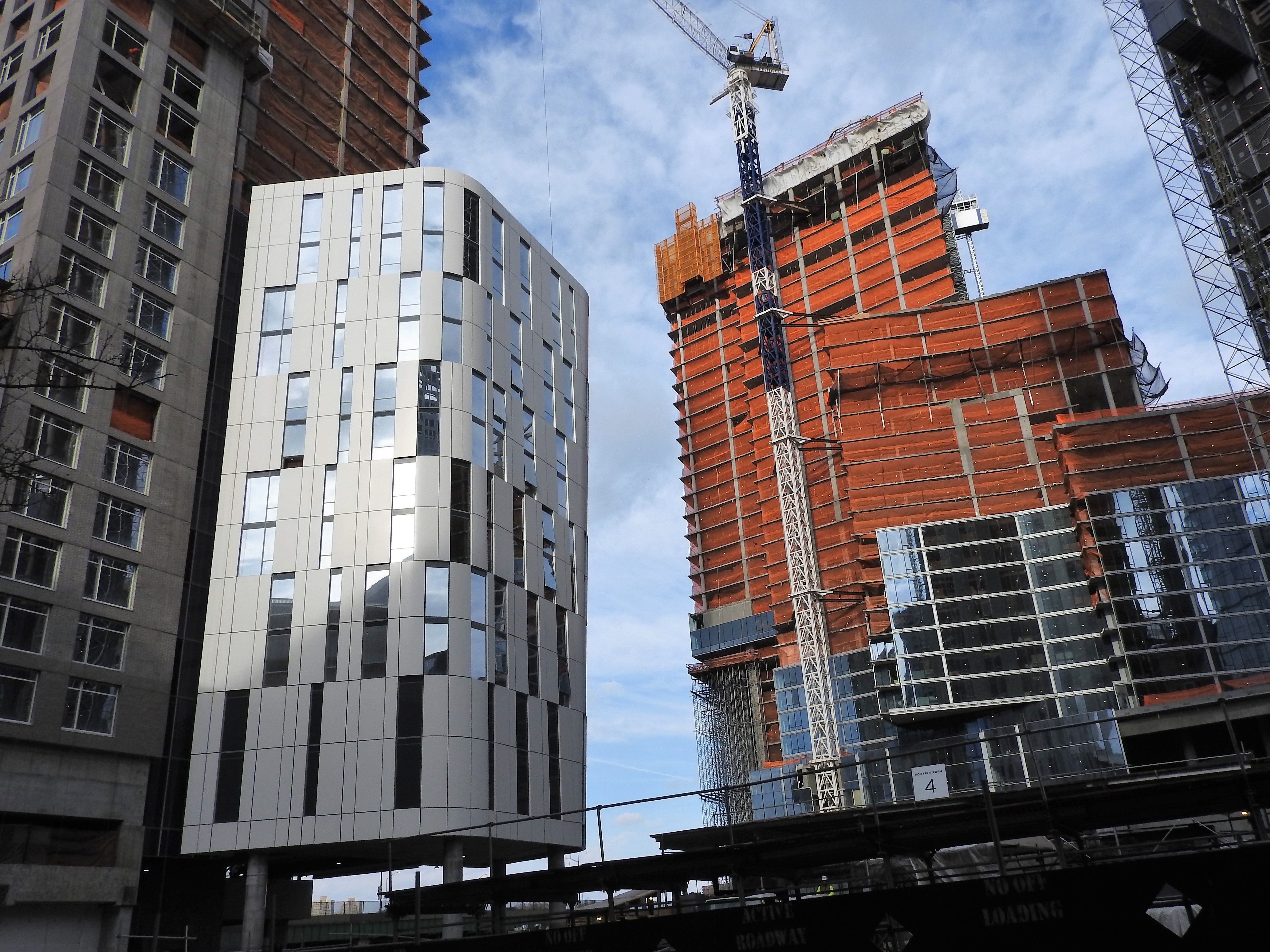 Looking north from 59th Street